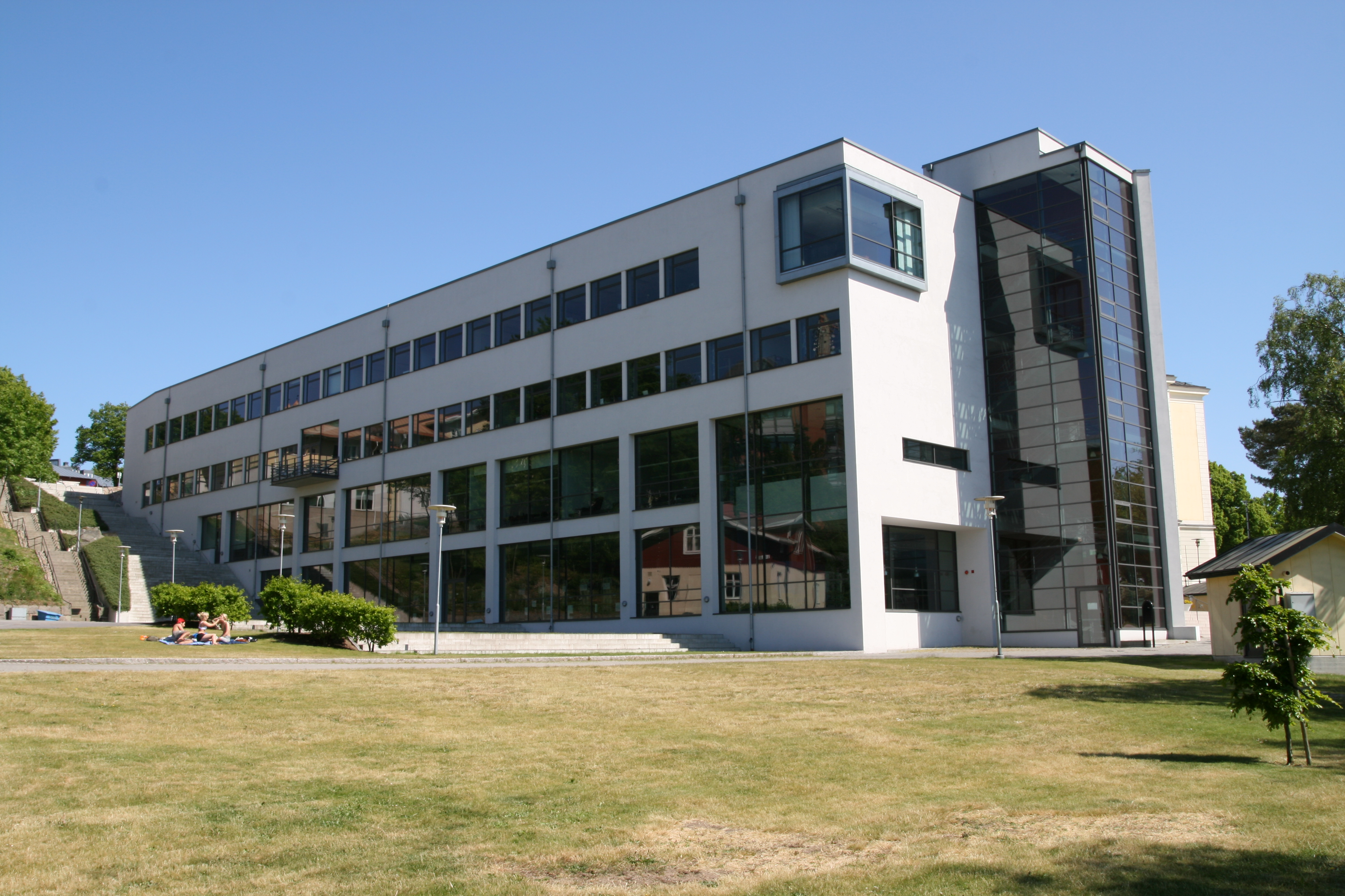 The library building of Blekinge Institute of Technology at Campus Gräsvik in Karlskrona, Sweden.